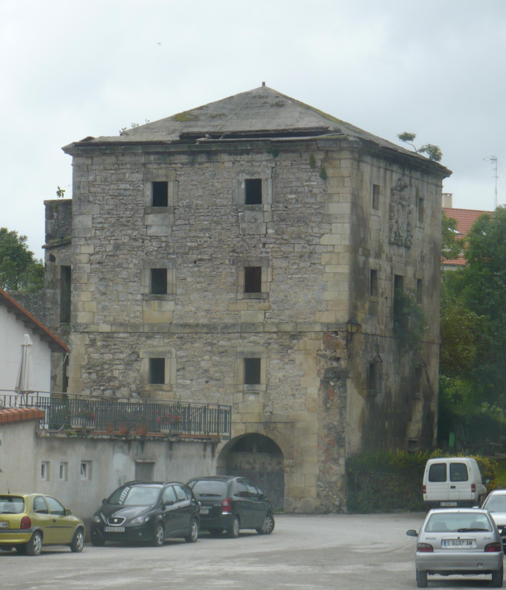 Tower of Rigada in Anero, Ribamontán al Monte (Cantabria). Former house of the Rigada family. XVII century